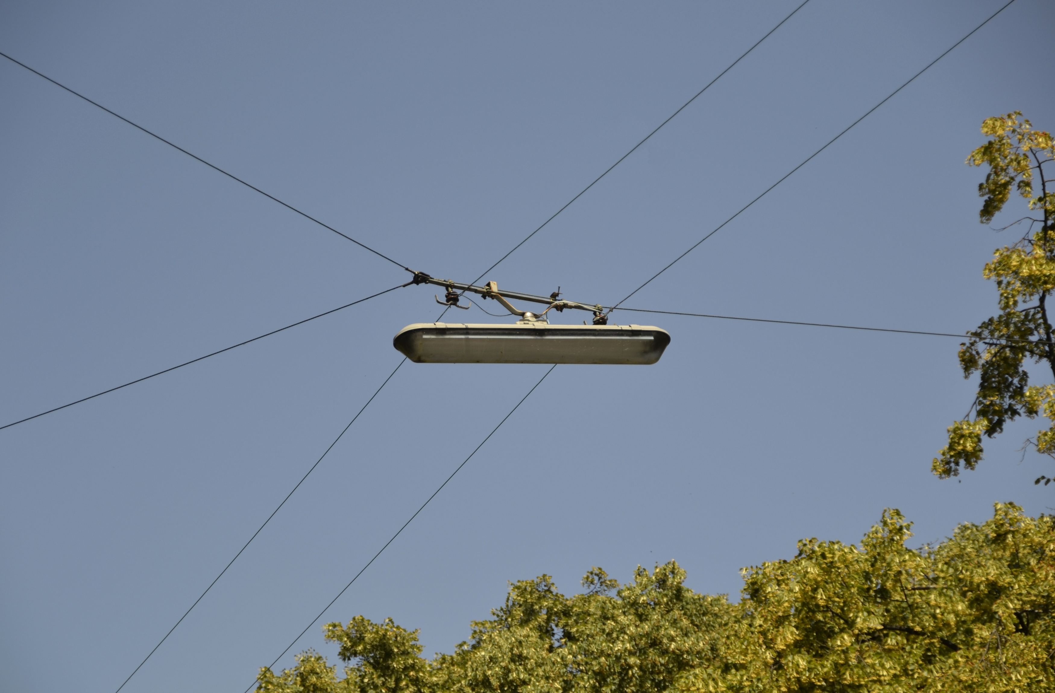 Hanging street light in Munich, Germany.